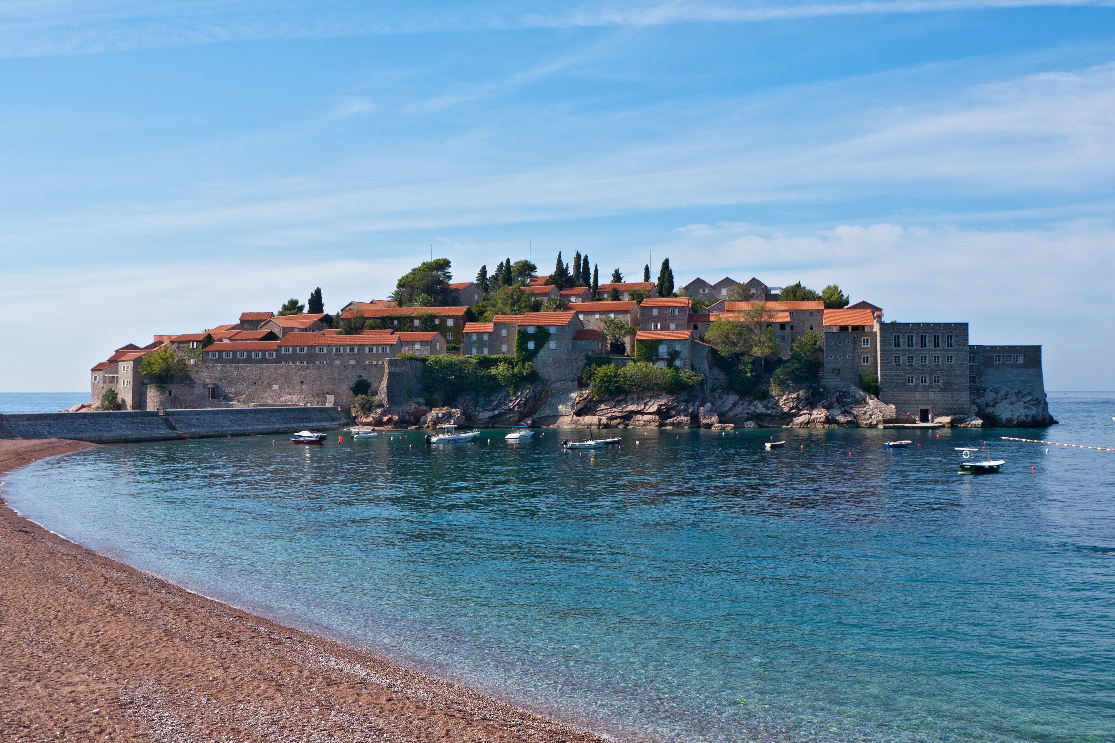 Sveti Stefan in Montenegro